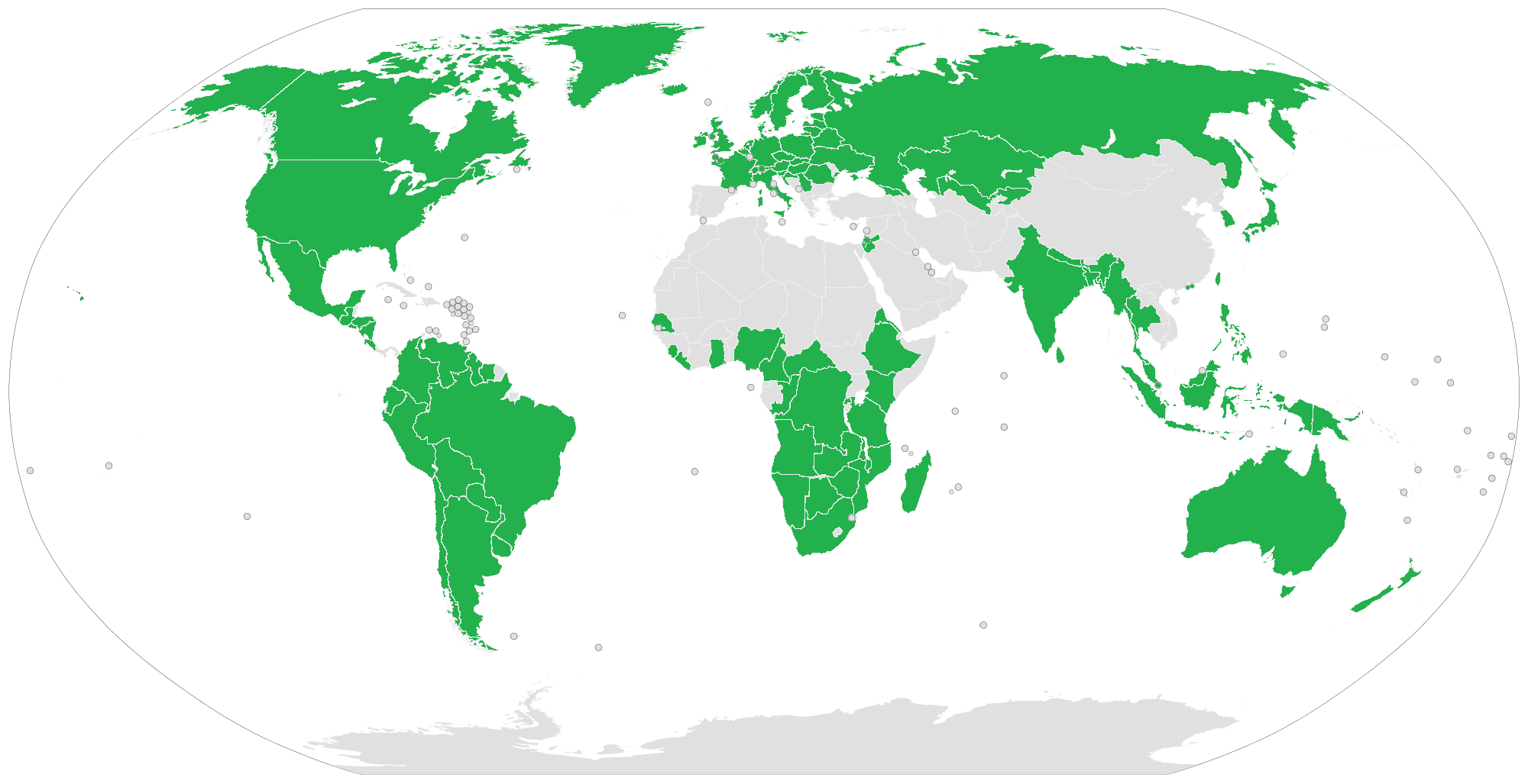 Green- States that have a member, associate member or recognized affiliate in the World Lutheran Federaton